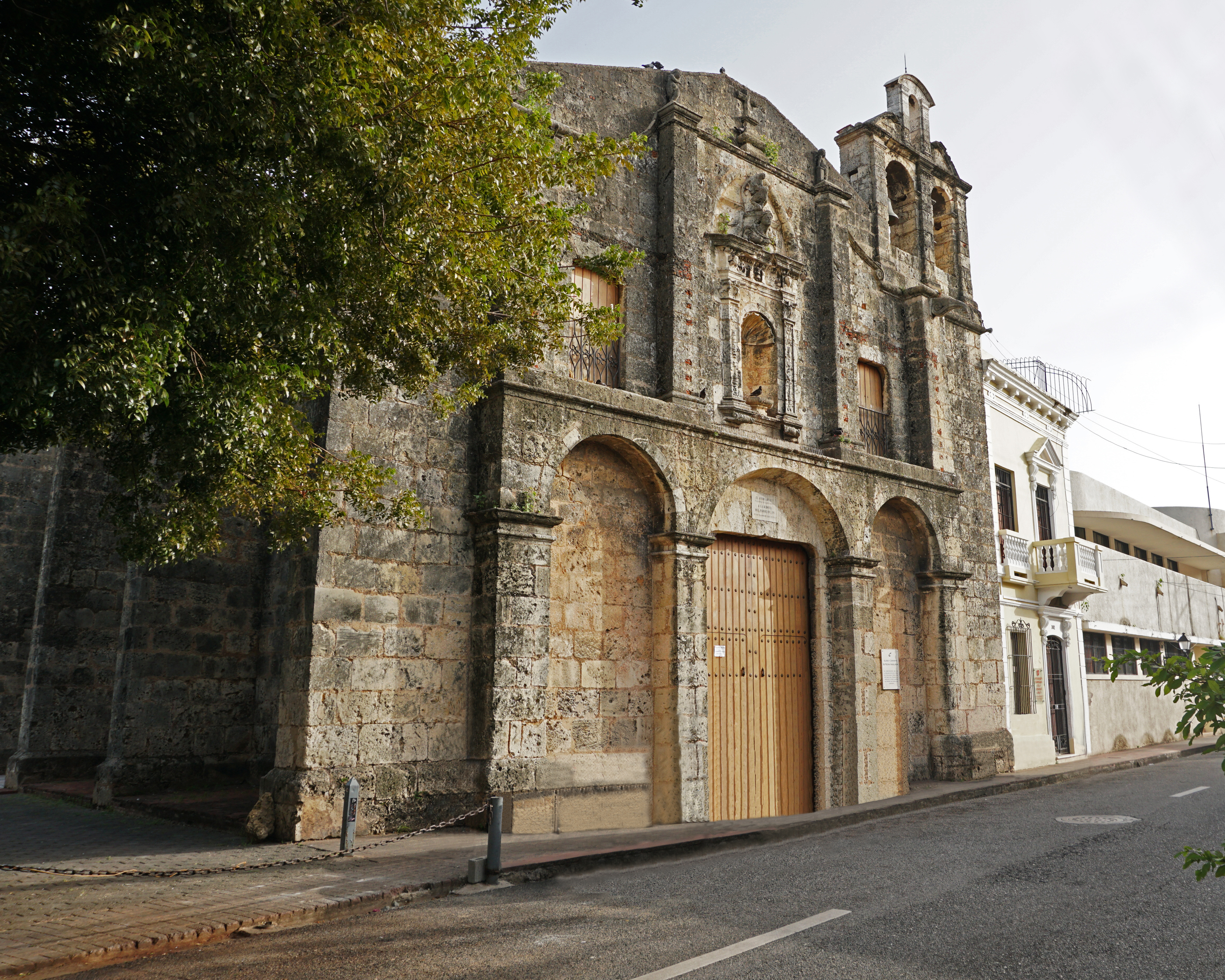 Church and Convent Regina Angelorum, Ciudad Colonial Santo Domingo